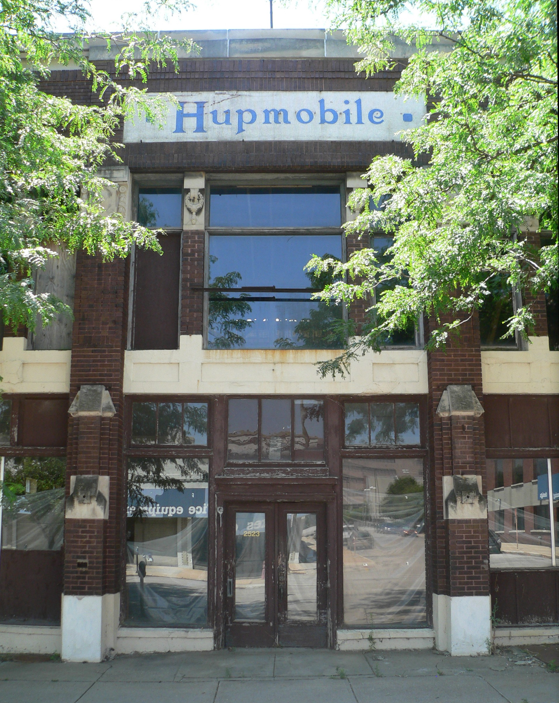 Hupmobile building, located at 2523 Farnam Street in Omaha, Nebraska: center of north face, seen from Farnam.